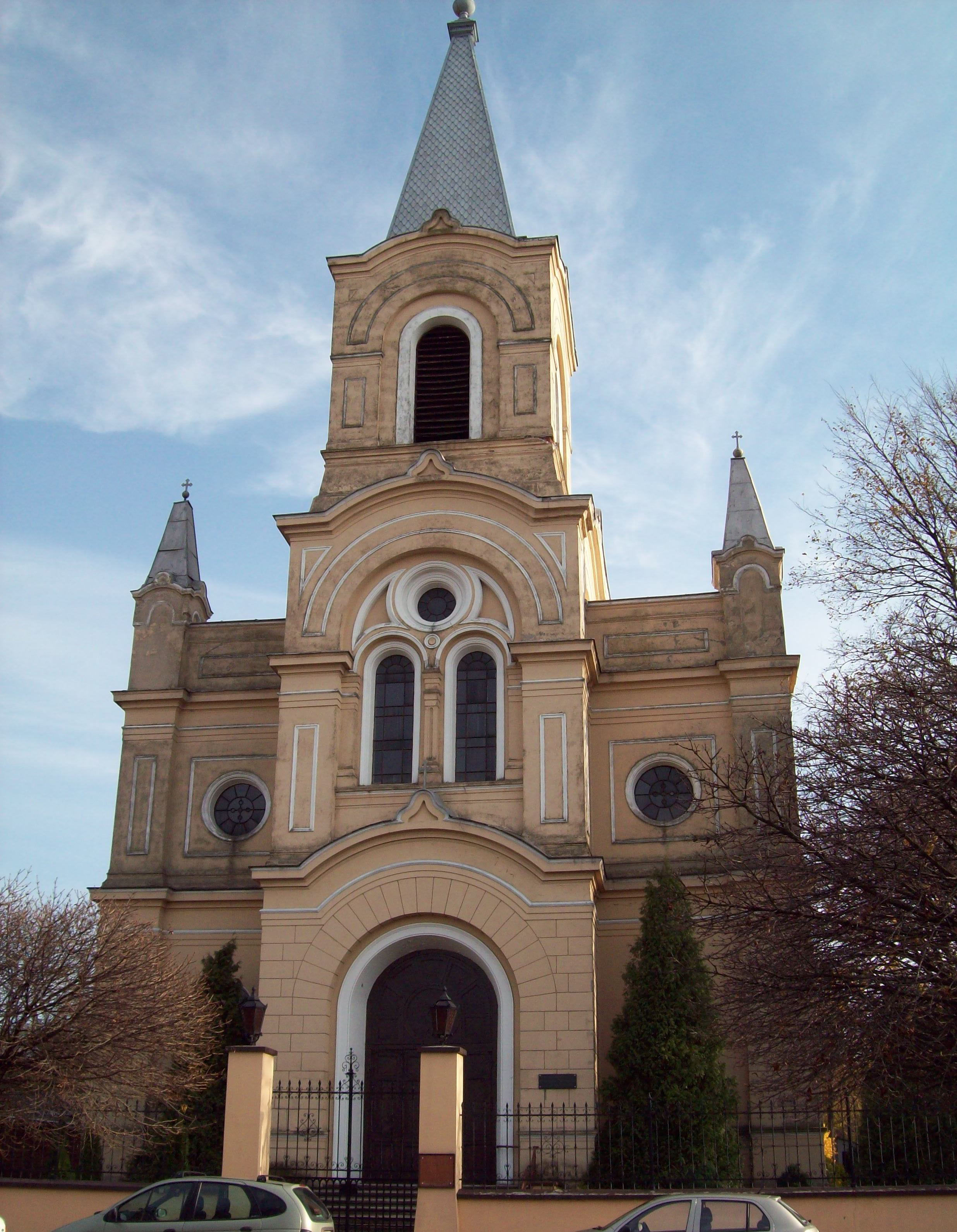 Lutheran church in Zdunska Wola